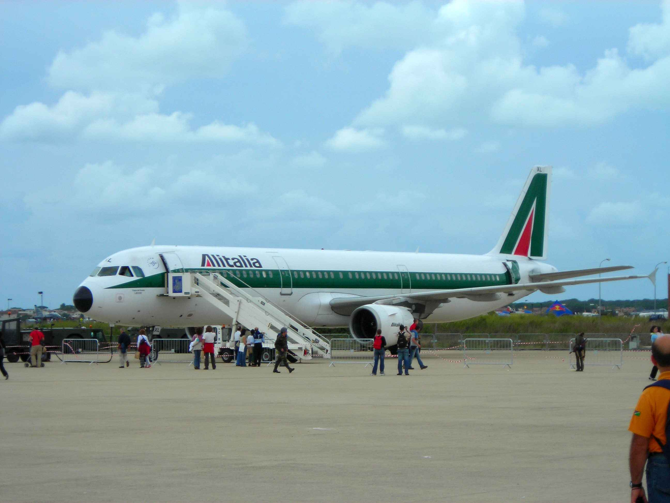 Airbus A321 of Alitalia Picture taken during "Giornata Azzurra" 2006 (Italian Air Force airshow) at Pratica di Mare AFB, Italy.